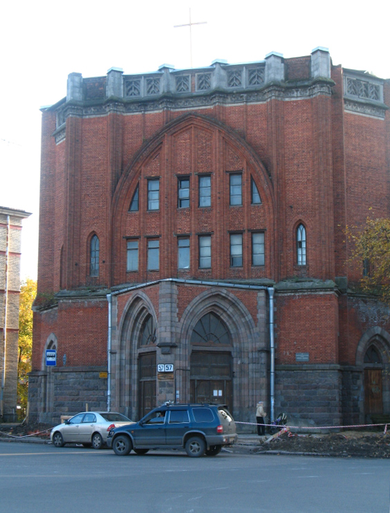 Saint Petersburg (Russia), Sacre Coeur Church